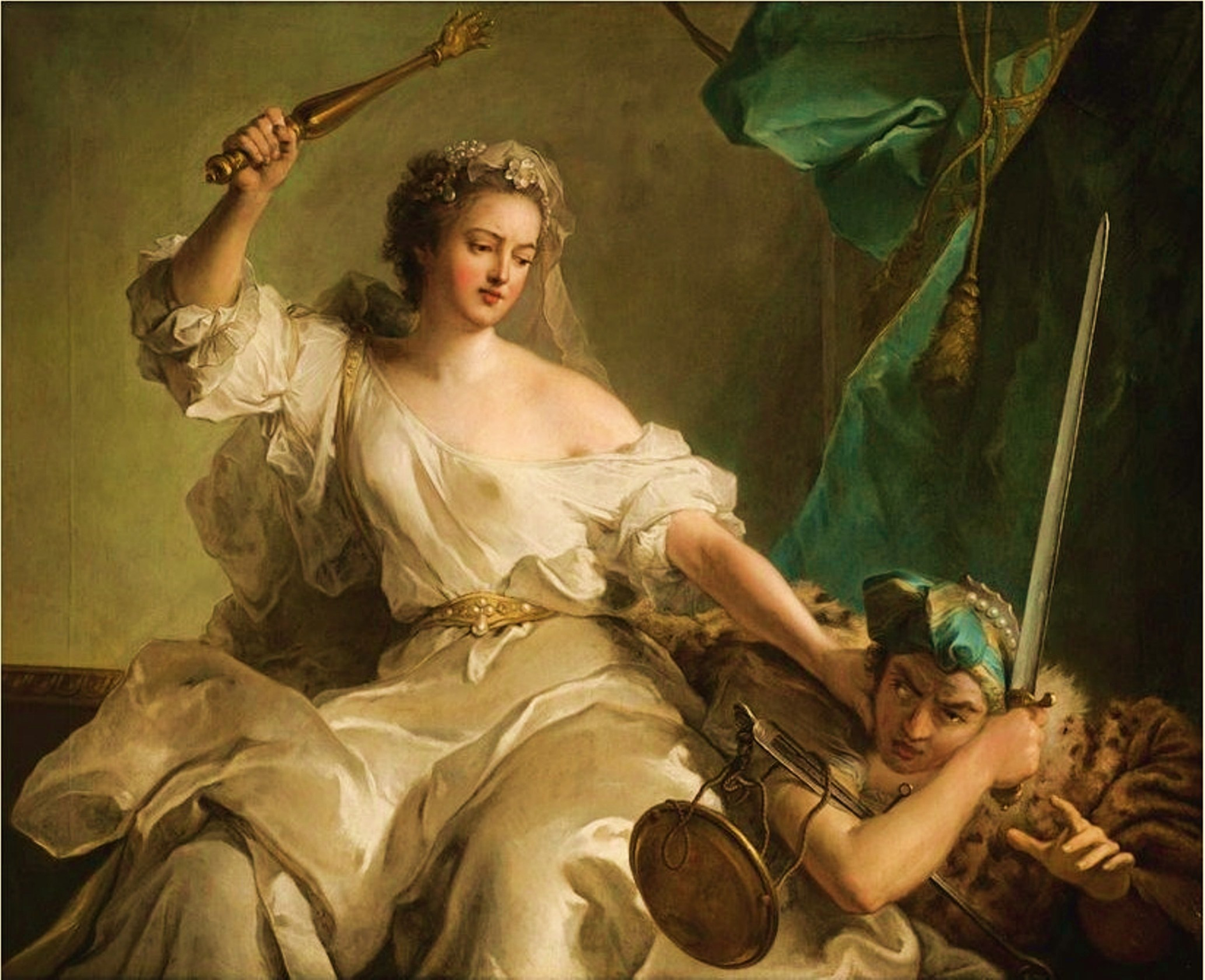 The figure of Justice in this painting was in turn considered the representation of Madame de Brionne, maiden name Louise de Rohan-Guémené or even Madame Adélaïde, daughter of Louis XV. Justice Chastising Injustice is however quite emblematic of the painter's talent and keen sense of staging.